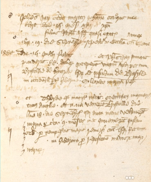 Willelmus Worcestre, Itinerarium (MS. CCCC Parker 210) p. 195